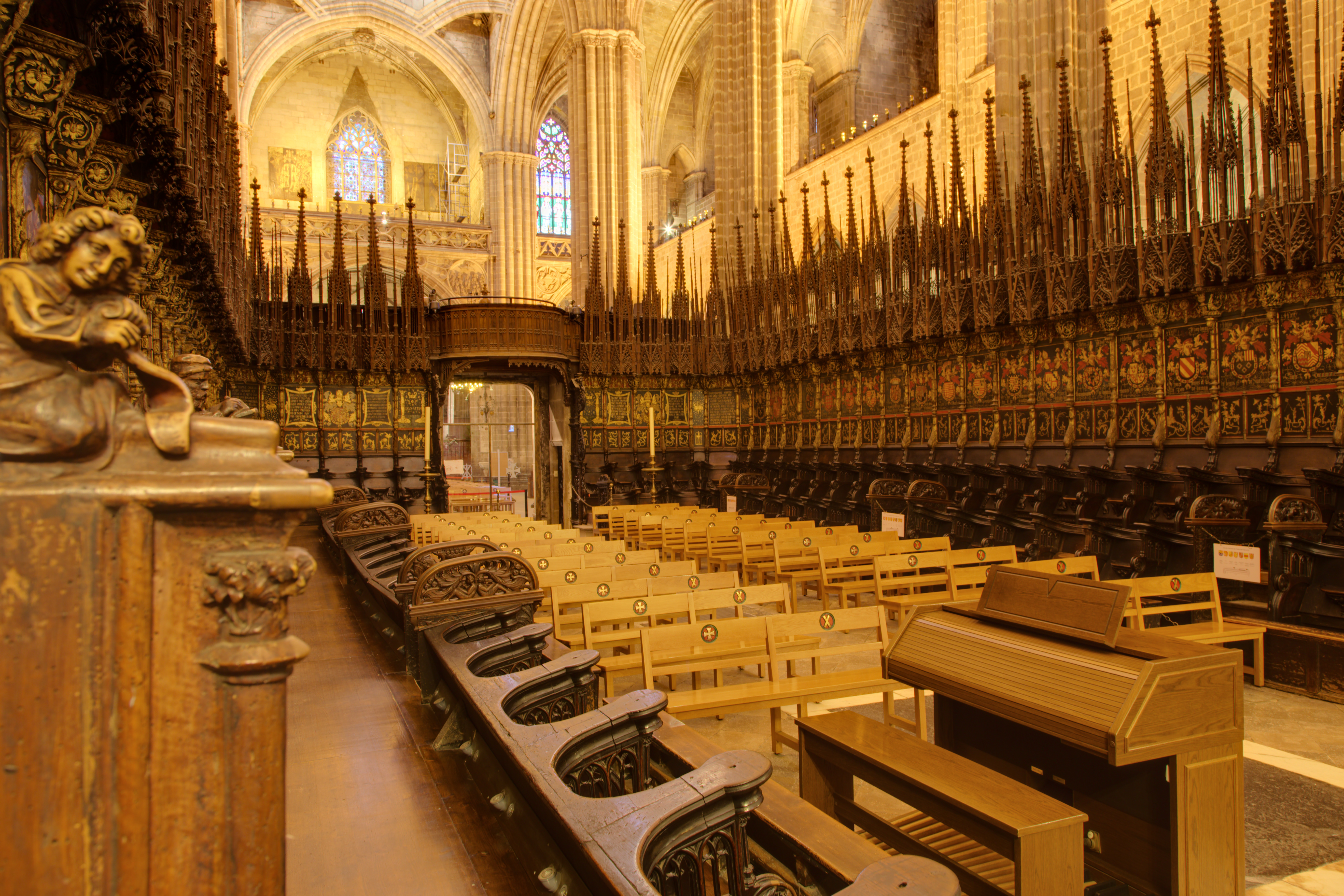 Choir of the cathedral of Barcelona